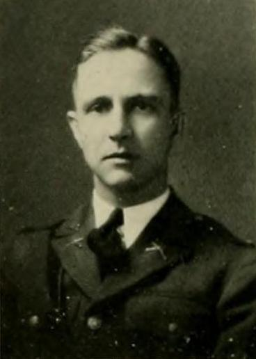 First Lieutenant Robert N. Young as assistant professor of military science in the University if Maryland's R.O.T.C. program.